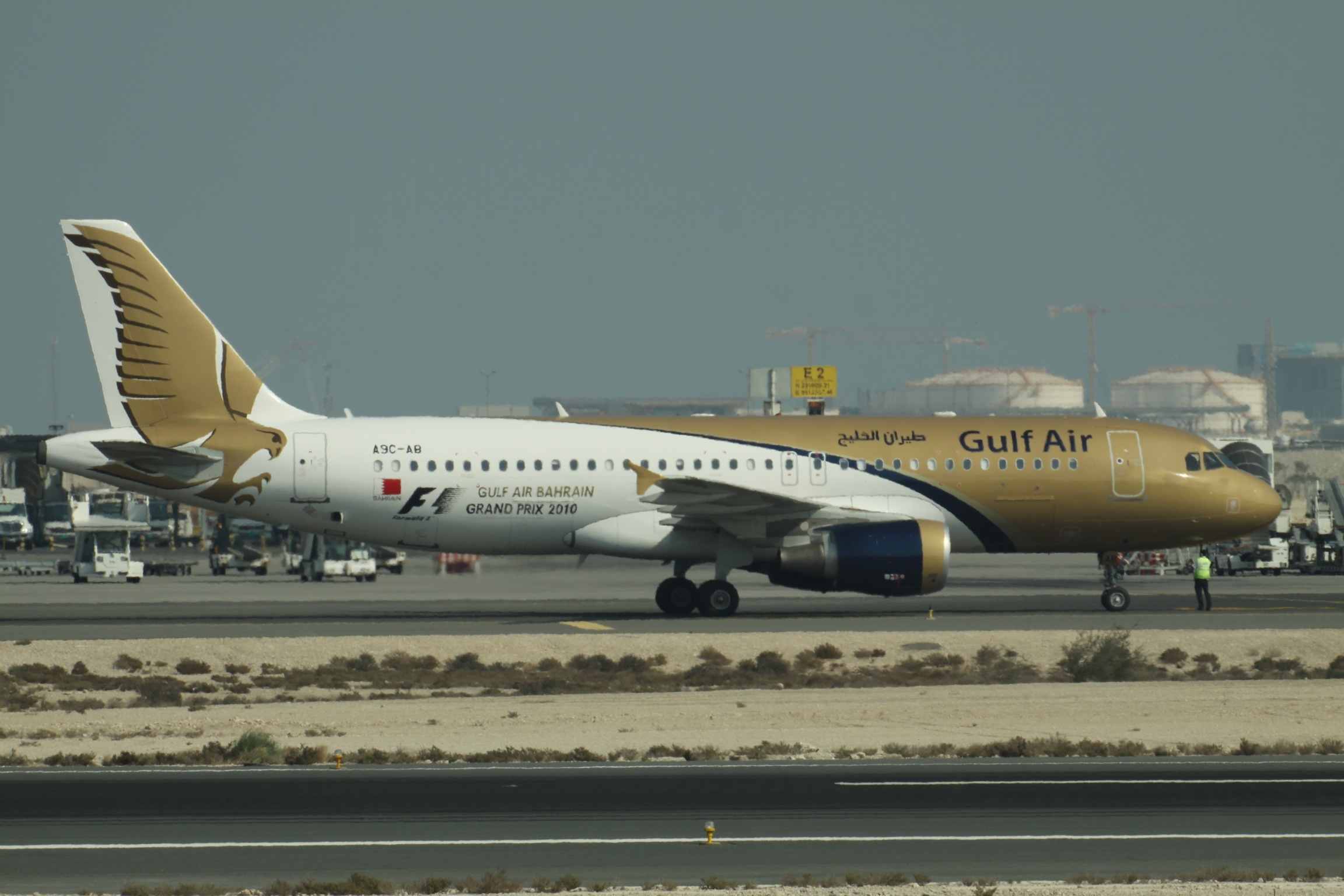 At Doha